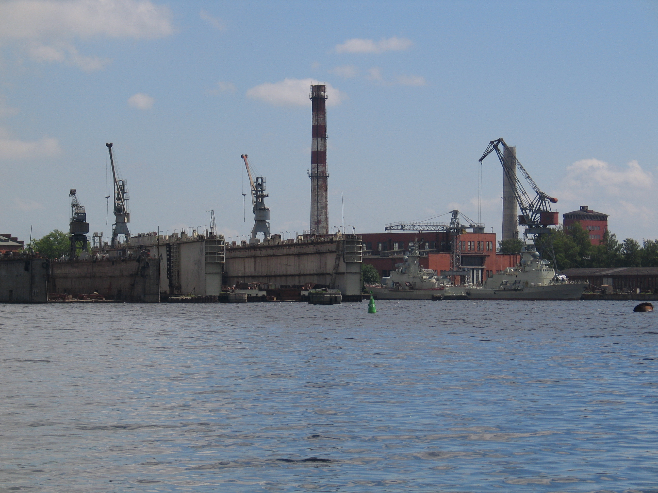 Yantar ("Amber") shipyard